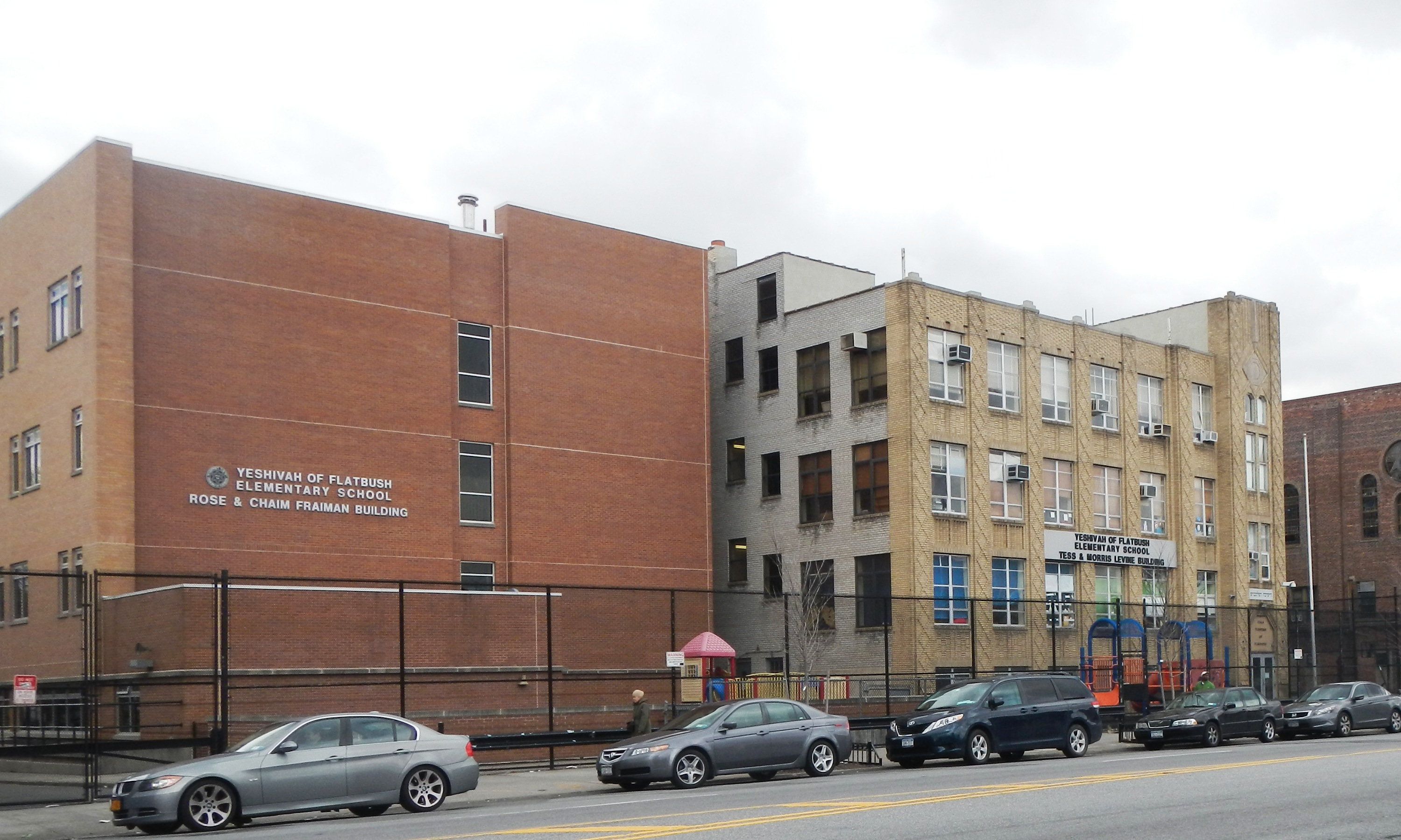 Looking northwest across Coney Island Aveune on a cloudy day.